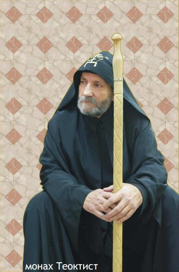 Milos Milicevic as monk Teoktist.